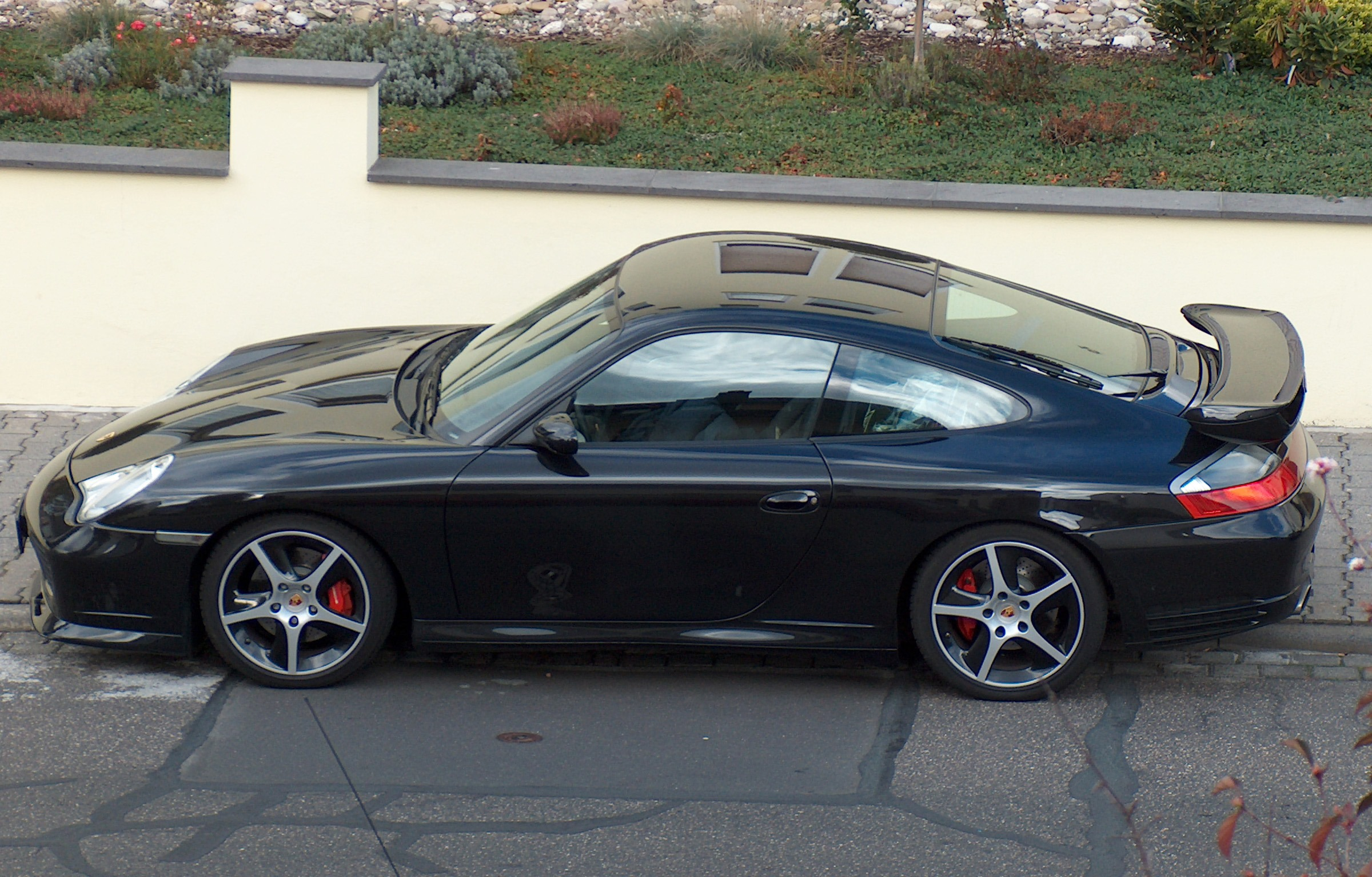 Porsche 996 Carrera 4S with special Rims (Techno-Look) and Aero-Kit (Airsplitter, Wing, etc.)